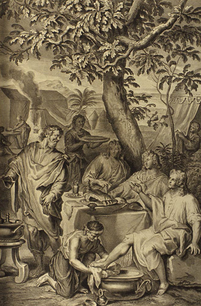 Abraham Stands by the Three Men under the Tree; as in Genesis 18:8: "And he took butter, and milk, and the calf which he had dressed, and set it before them; and he stood by them under the tree, and they did eat."; illustration from the 1728 Figures de la Bible; illustrated by Gerard Hoet (1648–1733) and others, and published by P. de Hondt in The Hague; image courtesy Bizzell Bible Collection, University of Oklahoma Libraries